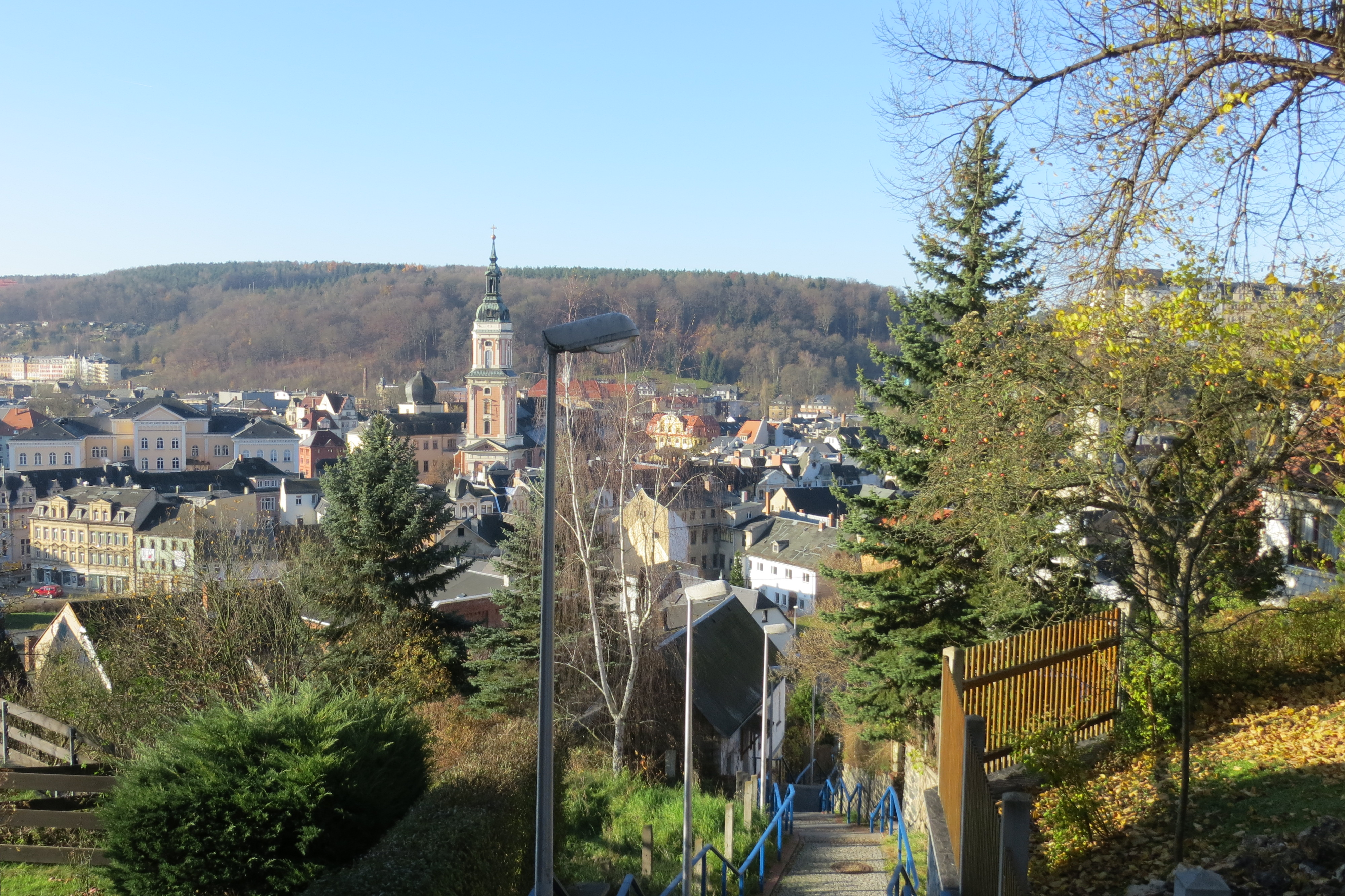 City of Geriz seen from the Himmelsleiter stairs